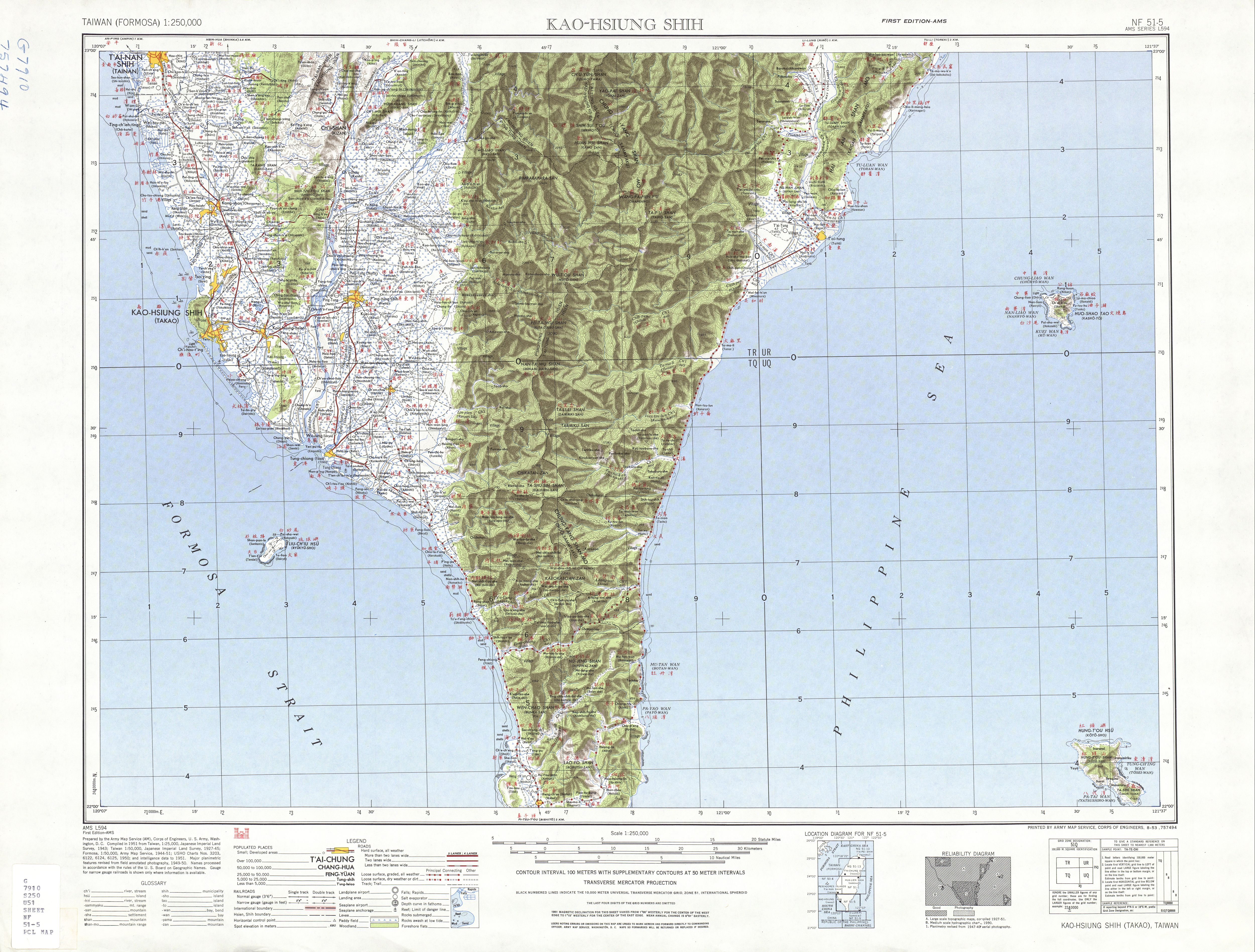 Tawian AMS Topographic Maps